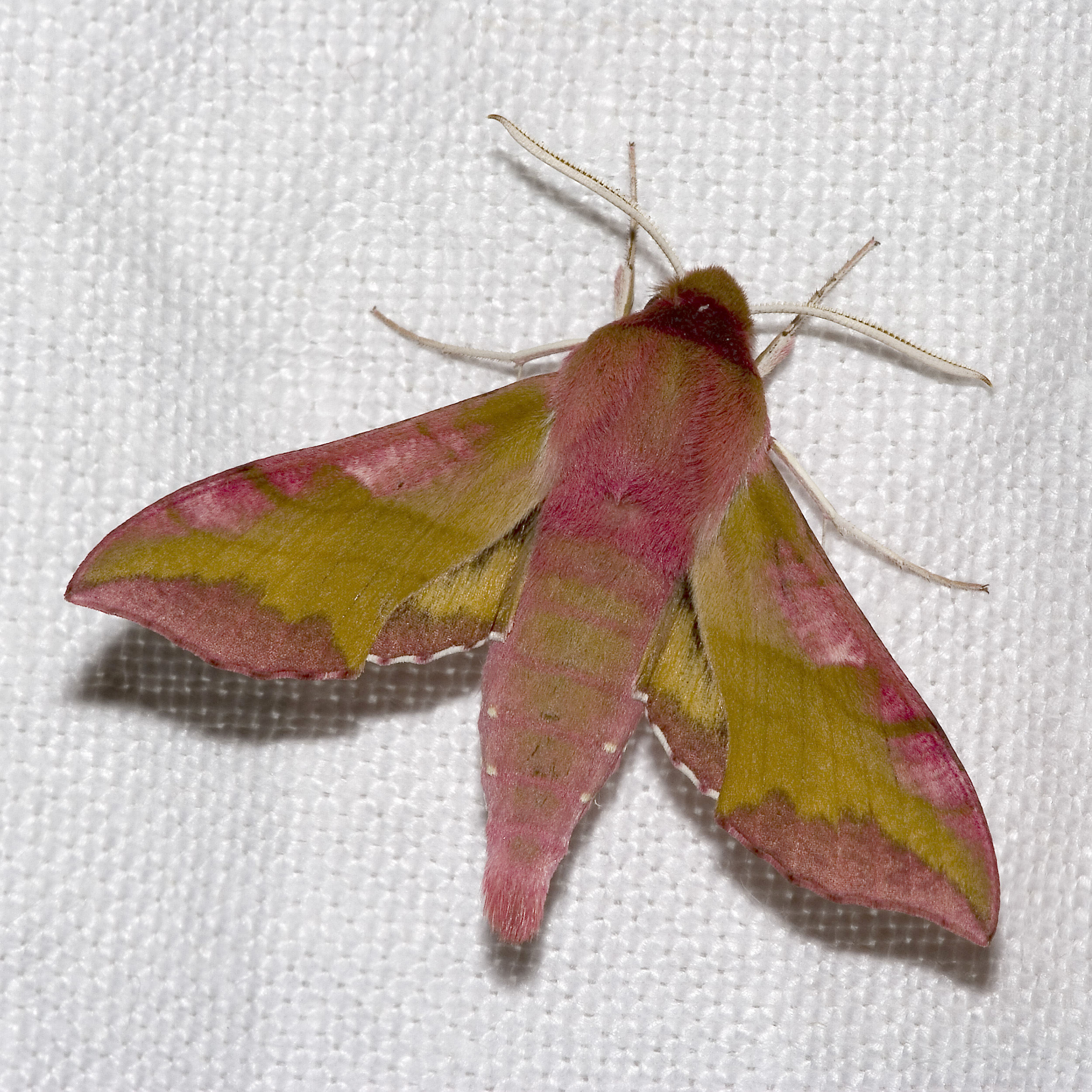 Small Elephant Hawk-moth